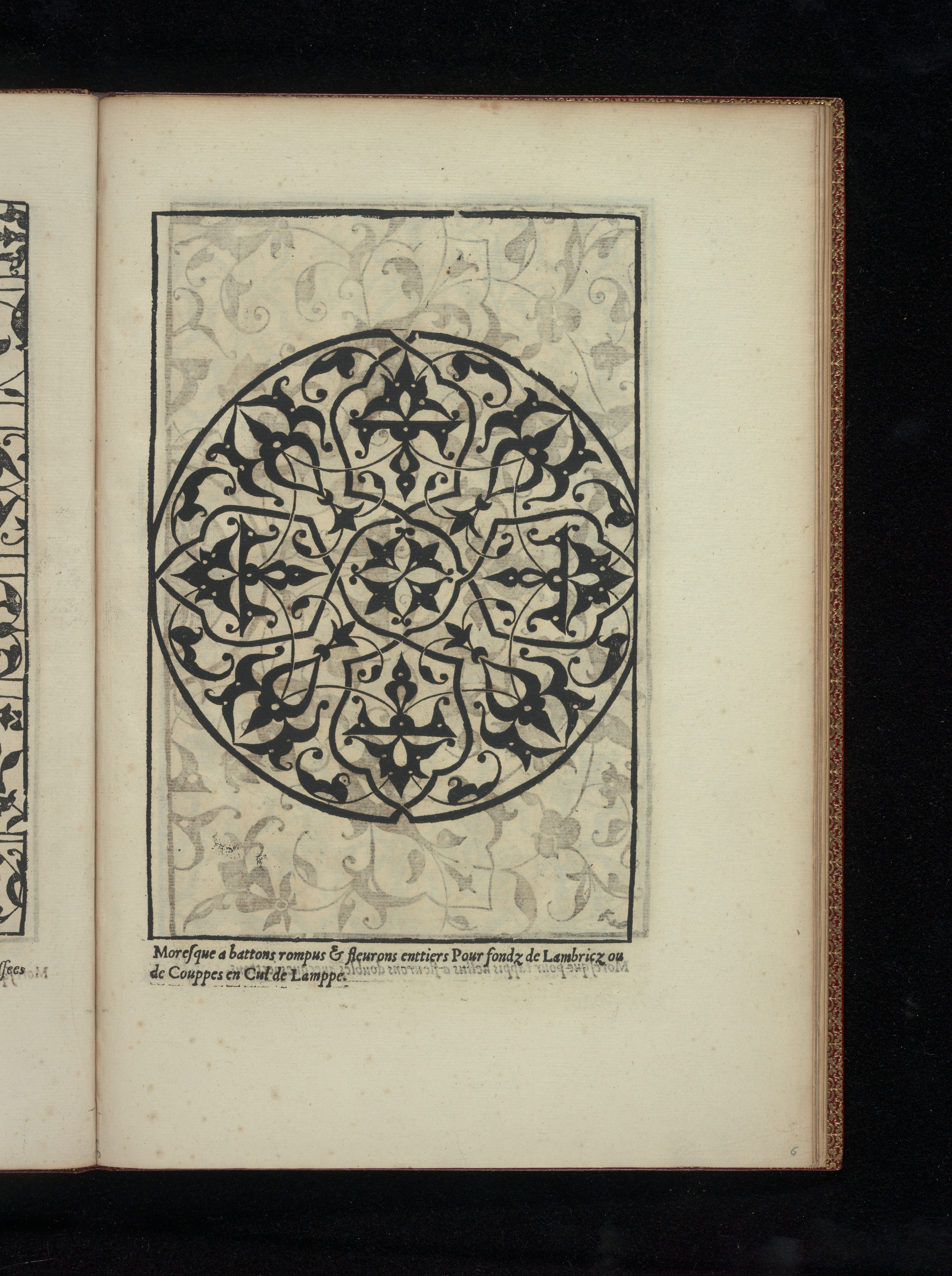 Book Ornament & Architecture; Books